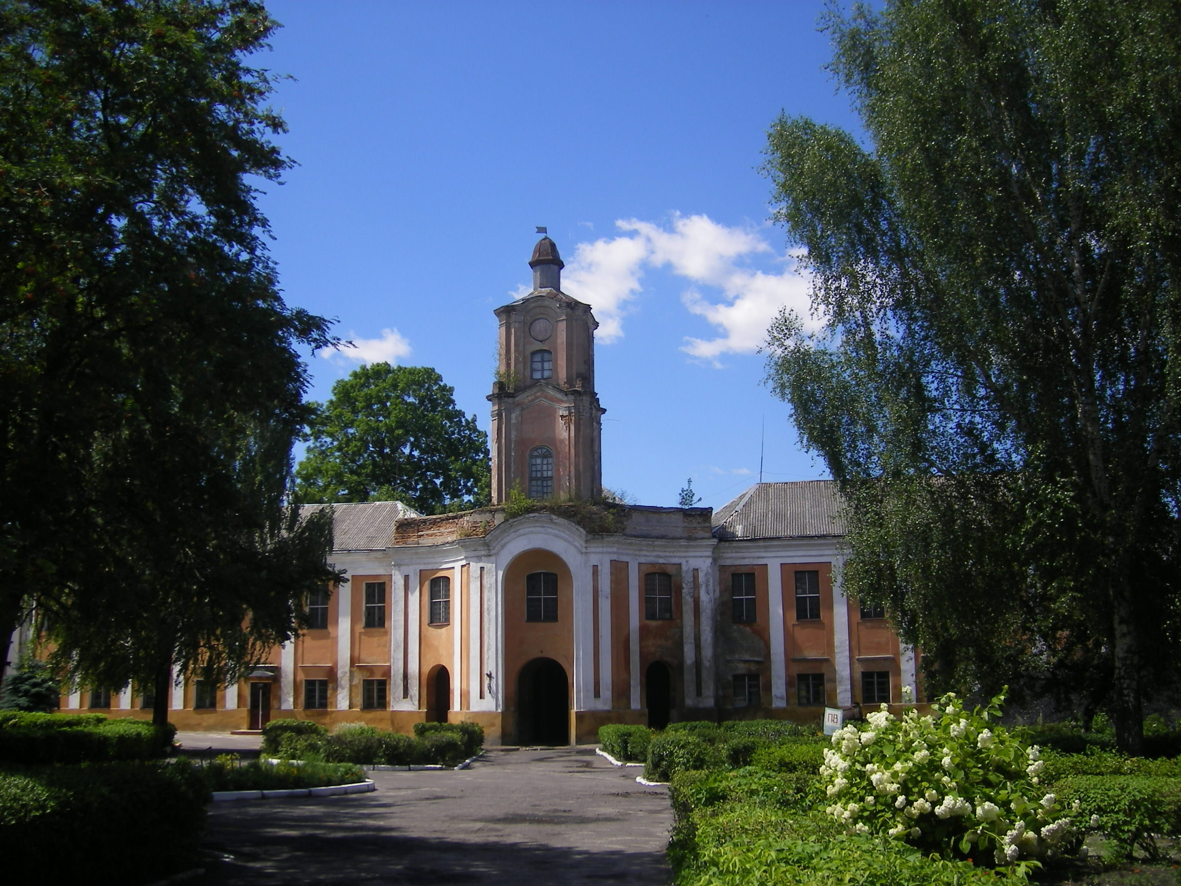 Olyka, old castle (now hospital)